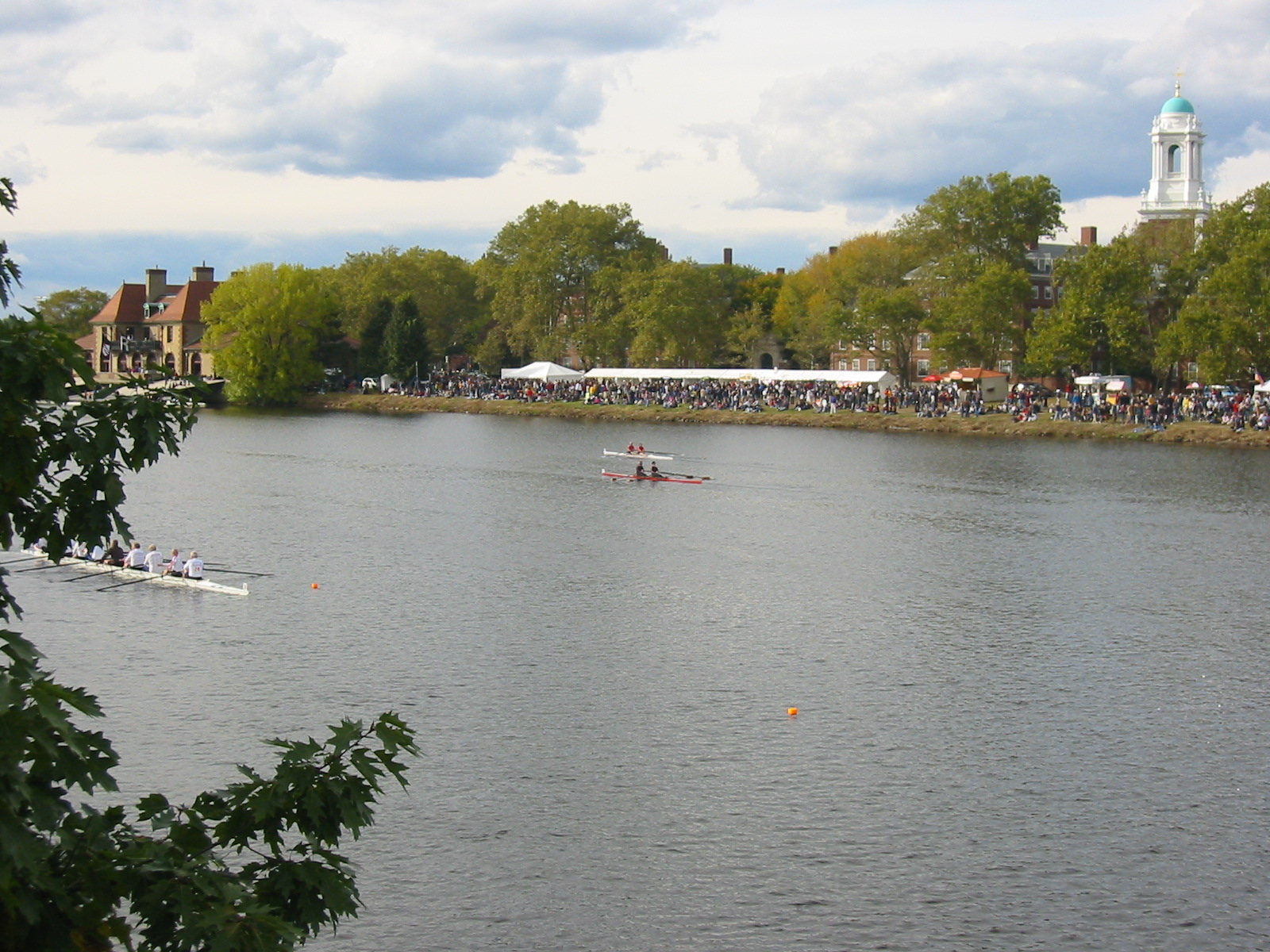 Spectators line the Banks of the Charles River during the 2003 Head of the Charles Regatta. Eliot House and Weld Boat House are in the background.